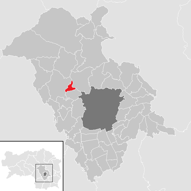 District Graz-Umgebung, Styria